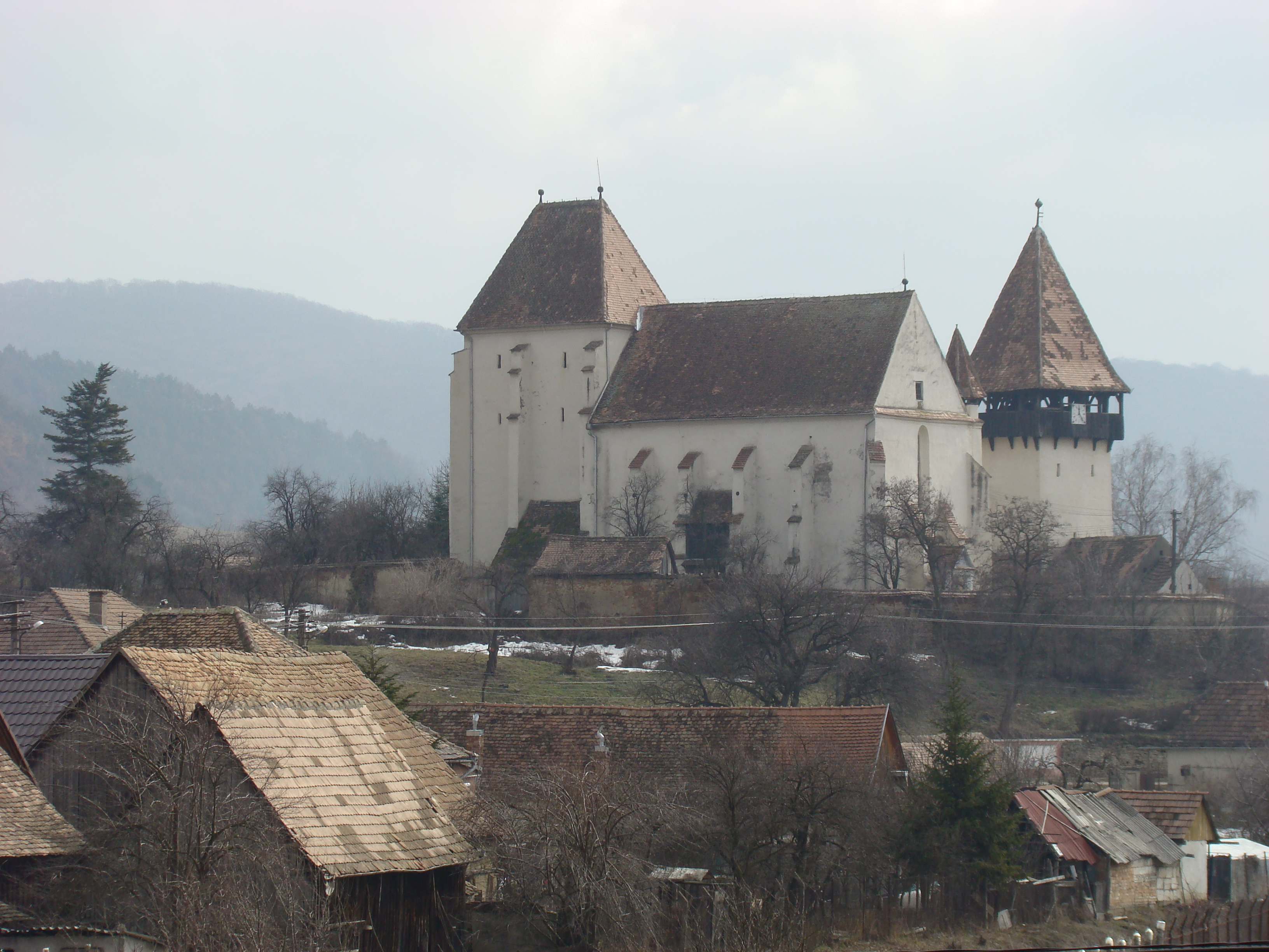 The saxon fortified church in Bazna, Sibiu county, Romania